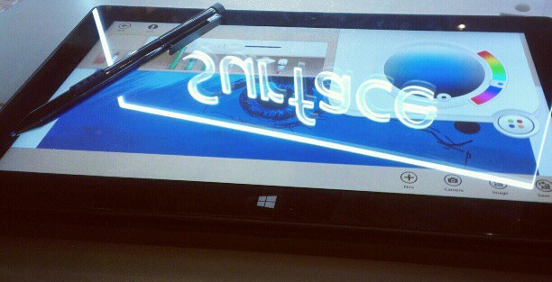 Oh Surface Pro. You are very pretty & I would like to buy you very much. ♡ °ﾟ°｡｡ヾ(*T▽T*)／ #surfacepro @surface